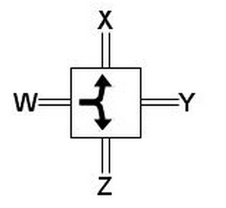 Hybrid coil